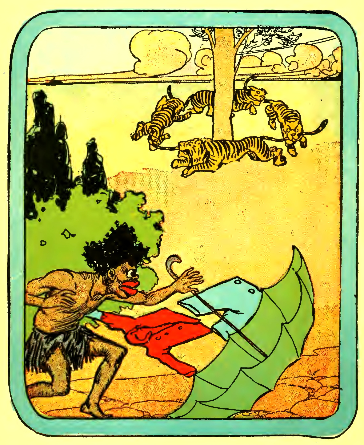 Then, when he was quite a little distance away from the Tigers, Little Black Sambo jumped up and called out, "Oh! Tigers, why have you taken off all your nice clothes? Don't you want them any more?"